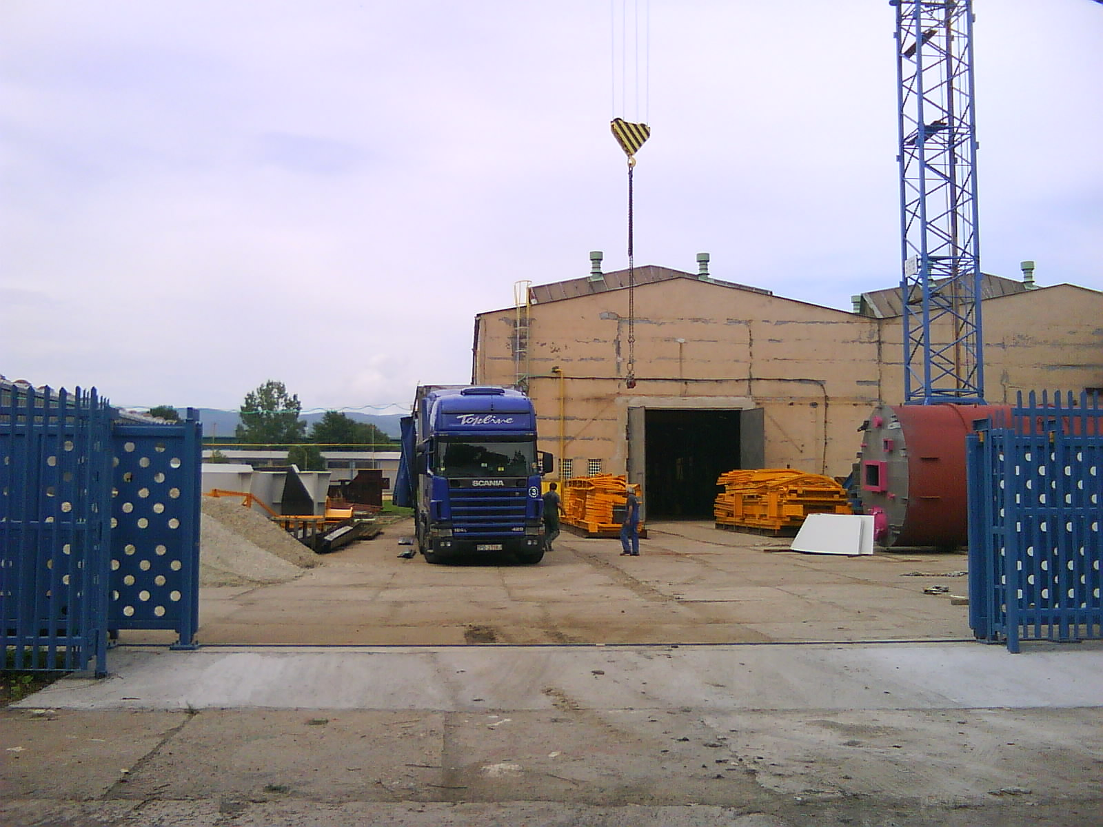 Silometal factory in Sečovce.